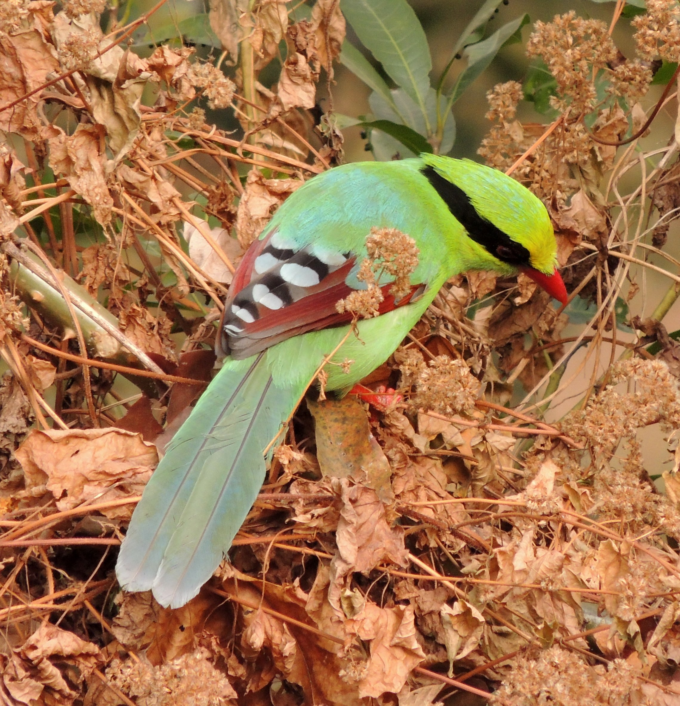 Common Green Magpie (Cissa chinensis)